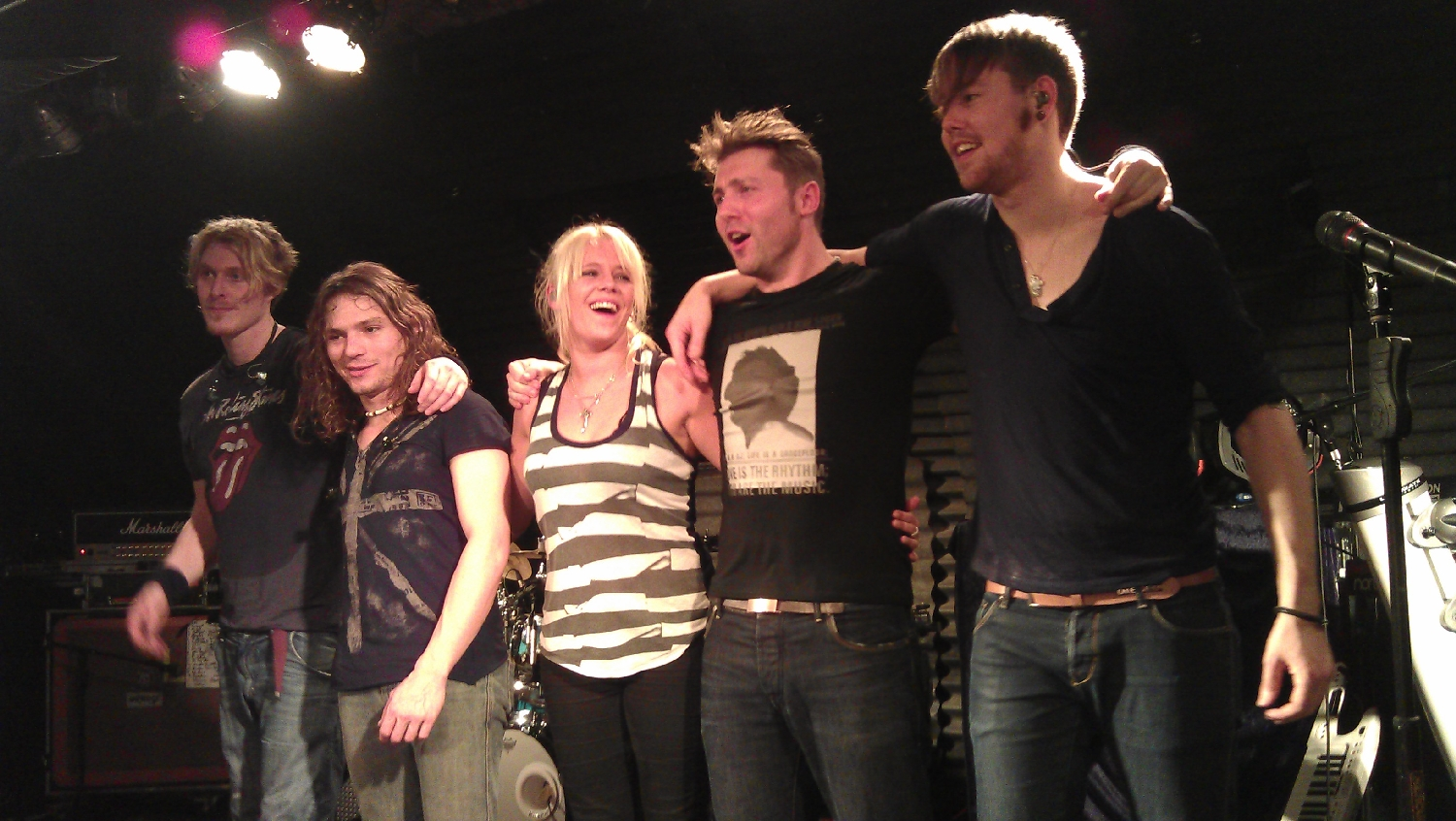 The German band Luxuslärm after a concert at Jazzhaus, Freiburg im Breisgau, Germany (left to right: Jan Zimmer, Freddy Hau, Janine Meyer, Christian Besch, David Müller)